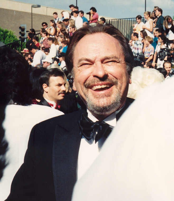 Rip Torn on the red carpet at the Emmys 9/11/94 - Permission granted to copy, publish, broadcast or post but please credit "photo by Alan Light" if you can